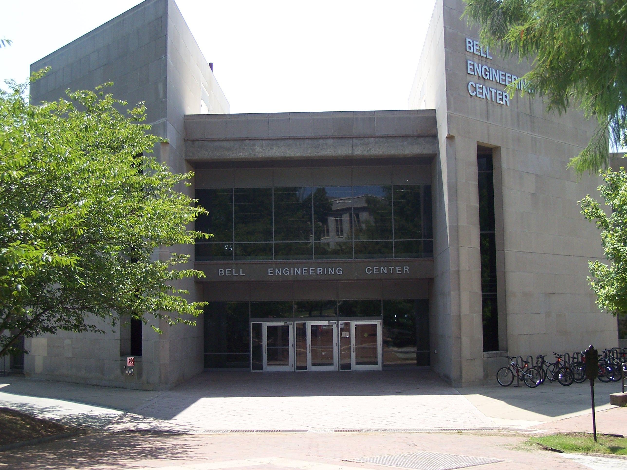 The Bell Engineering Center on the University of Arkansas campus.